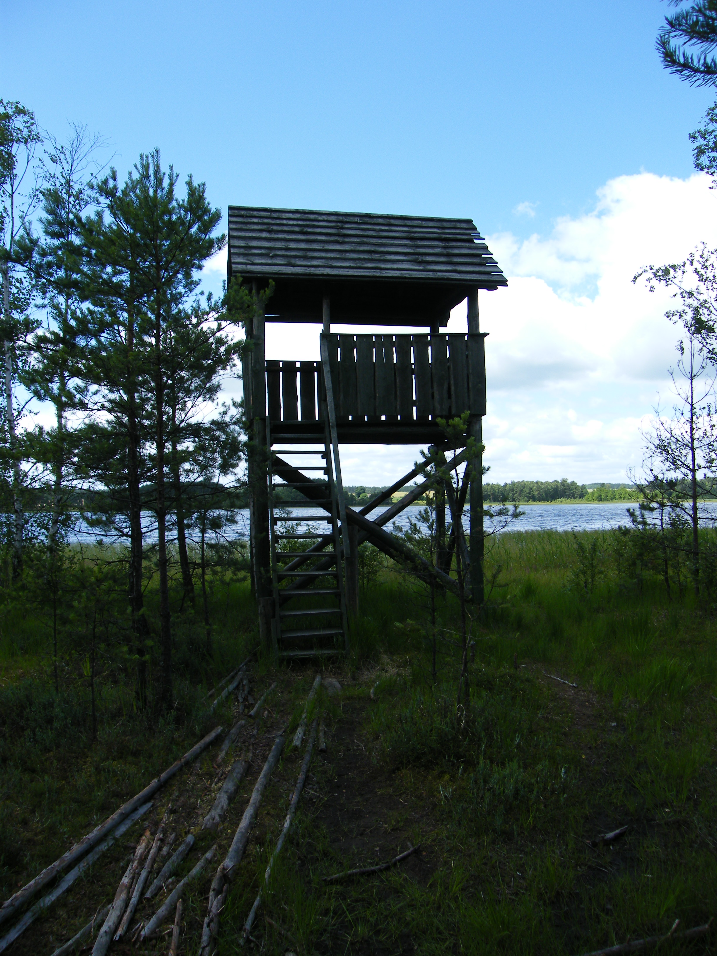 A waterfowl observation platform by Lipno Lake in the Wdzydze Landscape Park.